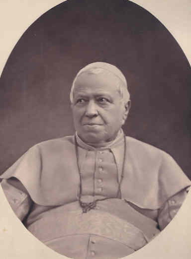 Pope Pius IX. Carbonprint - 29,5 x 23 cm